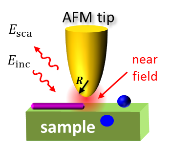 Principle of near-field probing